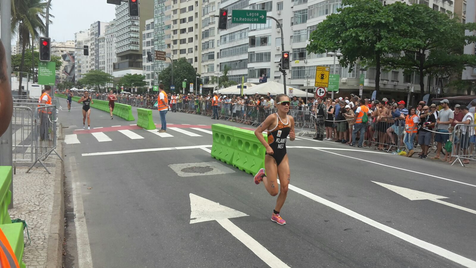 Women's triathlon - Rio 2016